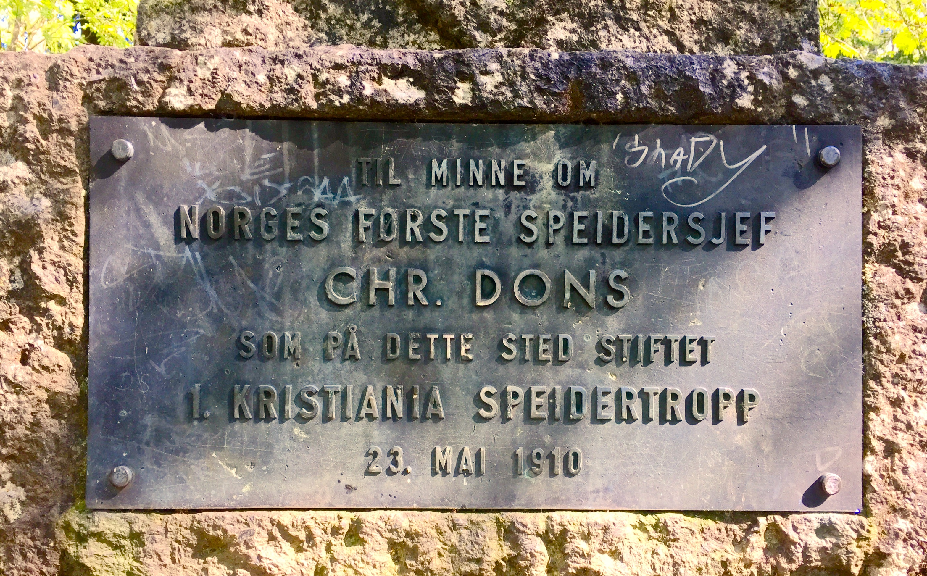 stone monument, memorial inscript of Christian Dons, founder of Norwegian Boyscouts